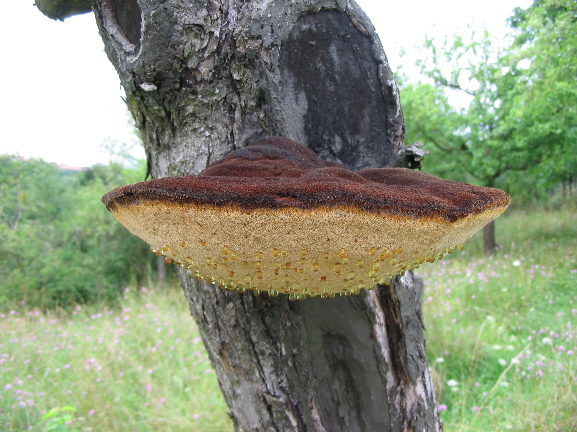 Fungus Inonotus hispidus growing on apple tree.